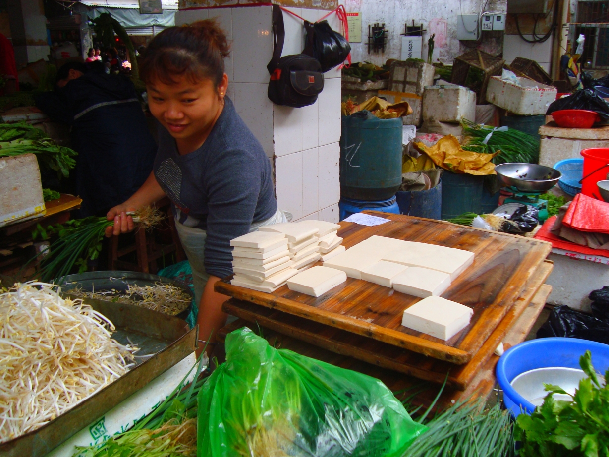 Tofu as sold in Haikou, Hainan, China.